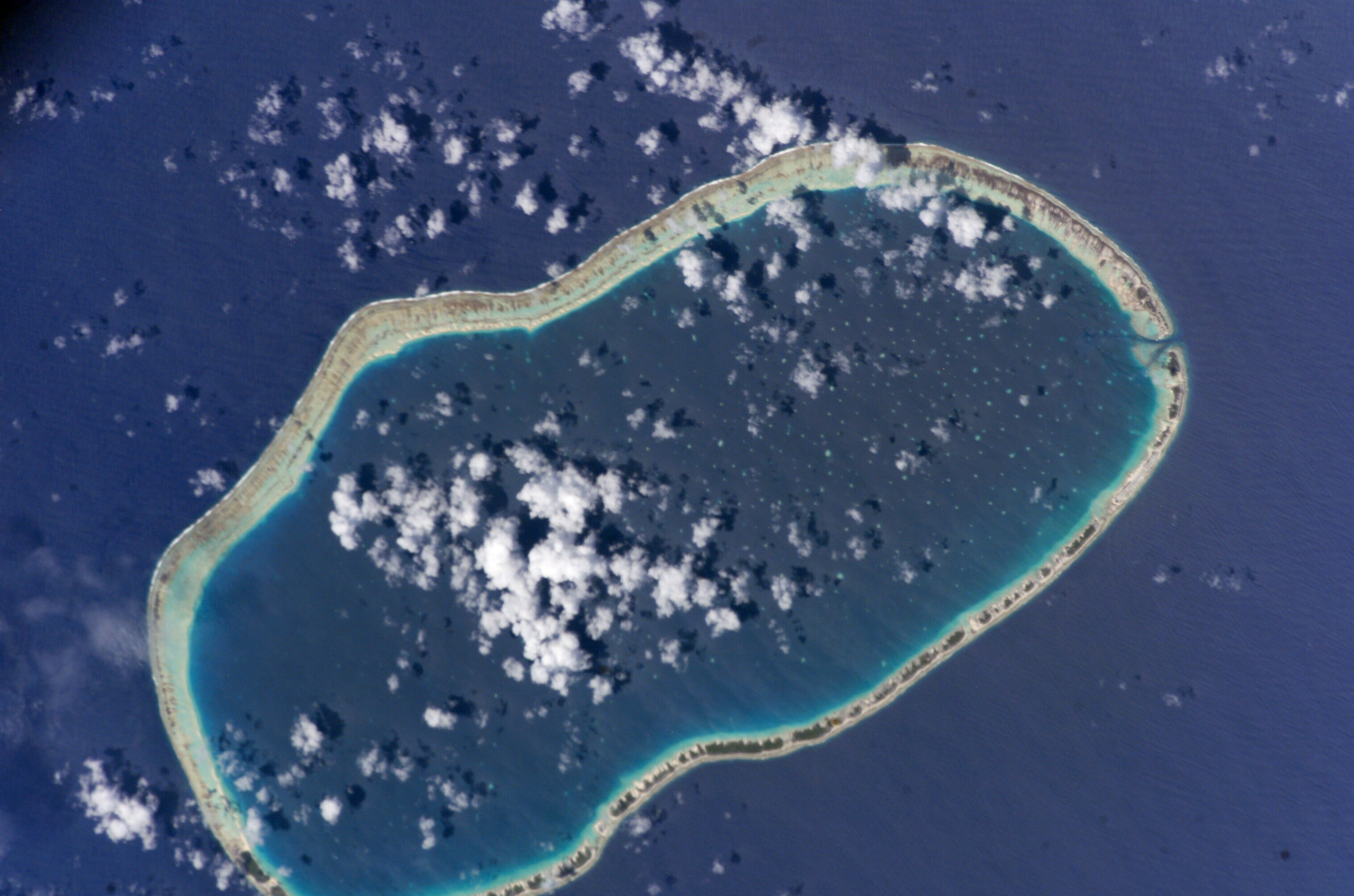 NASA Astronaut Image of Faaite (Tuamotu Archipelago, French Polynesia) in the Pacific Ocean